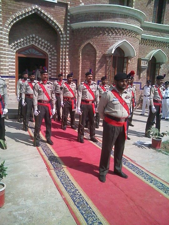 Punjab Highway Patrol Office